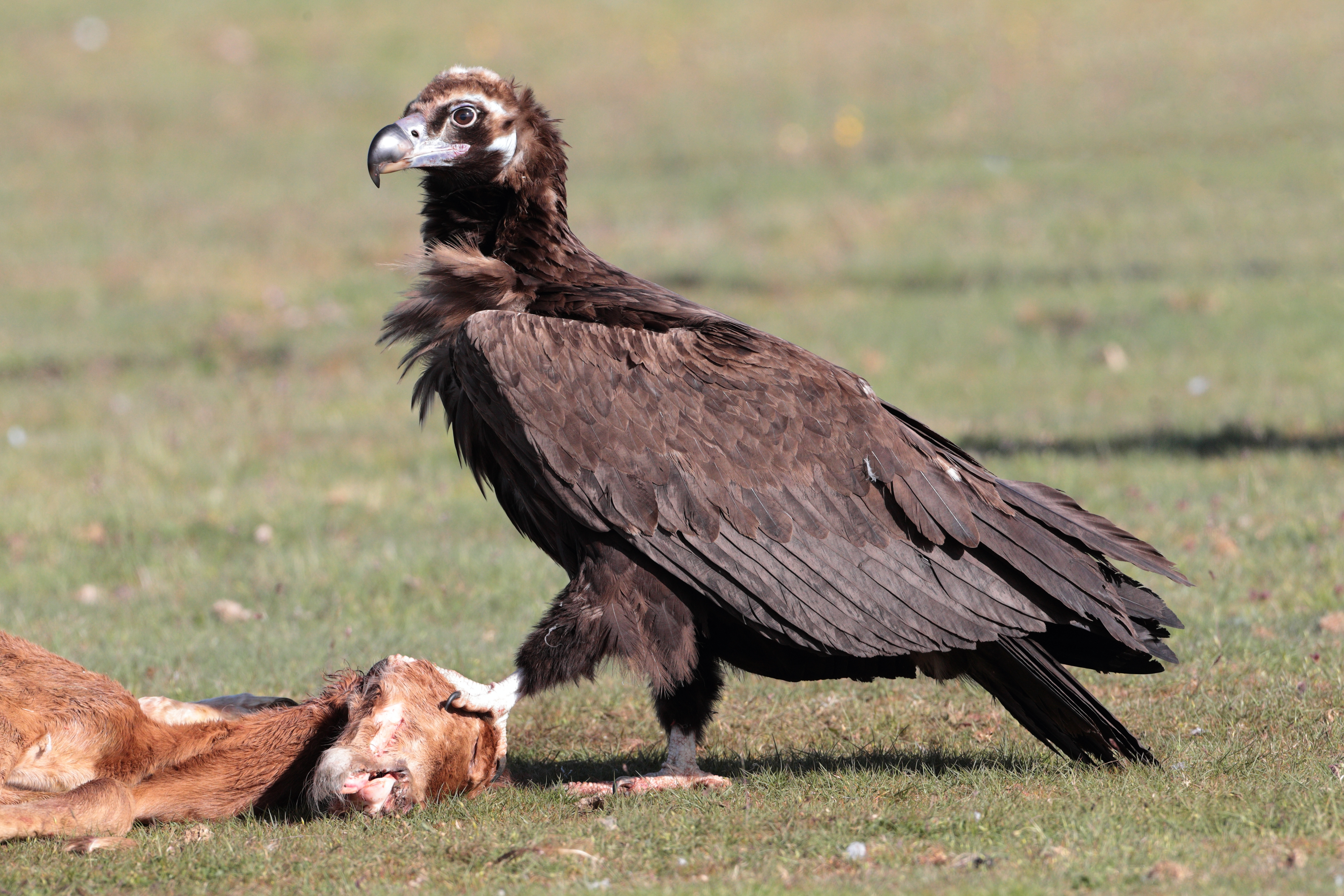 Black vulture grasping a calf's head.